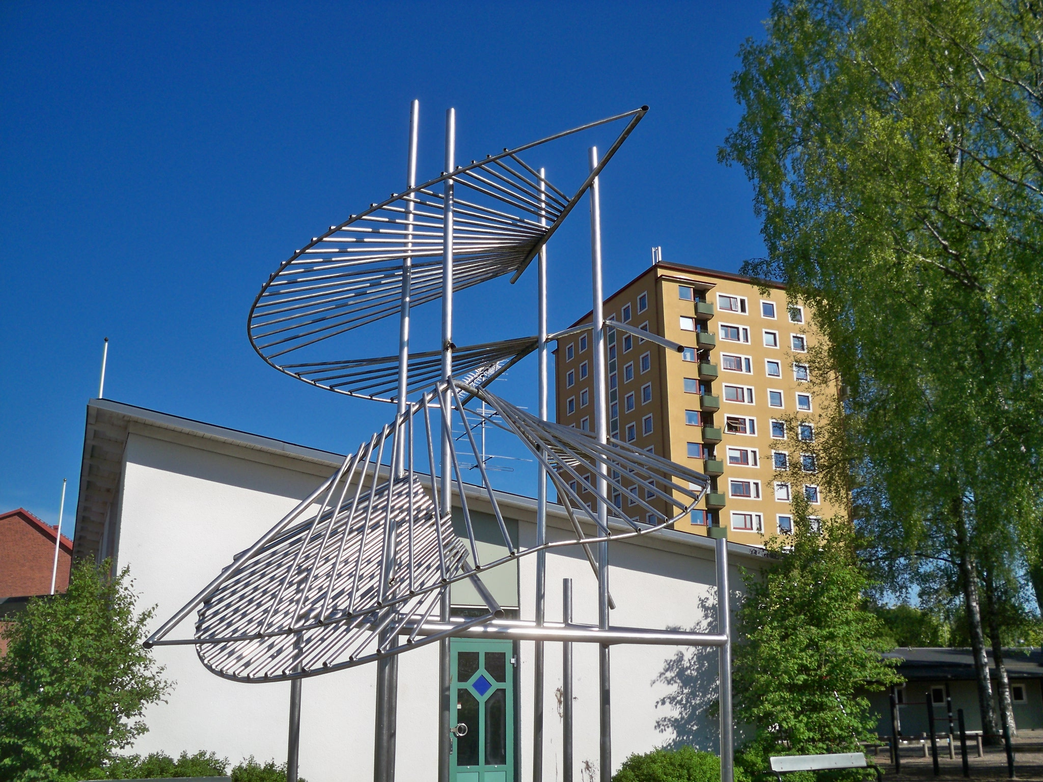 Eolsharpa (Aeolian harp) is a sculpture by the Swedish sculptor Fred Leyman (1919-2004). It was inaugurated in 1959 on an elementary school yard (Sjöboskolan) in the city of Borås, Sweden.